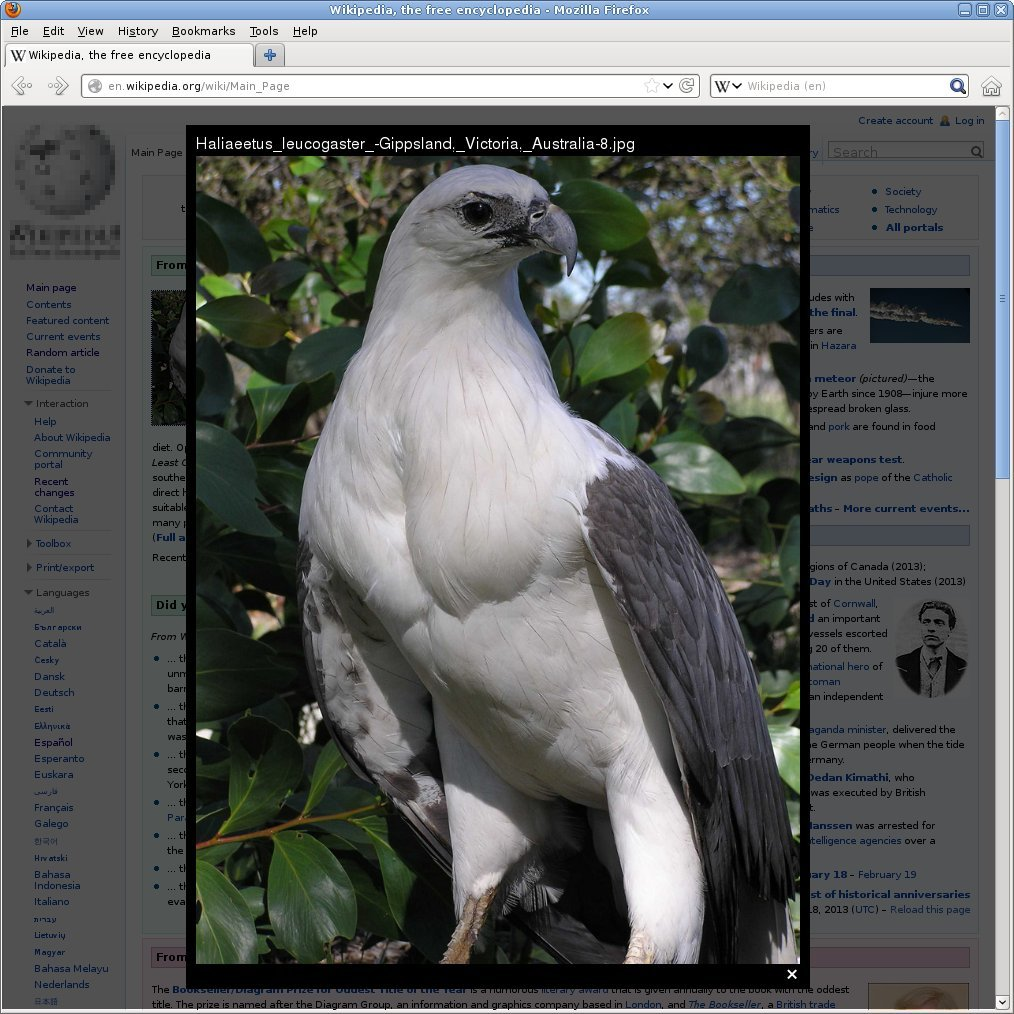 Mockup of a typical Lightbox image display. Produced by overlaying an image displayed using Shadowbox on top of a darkened Wikipedia main page.